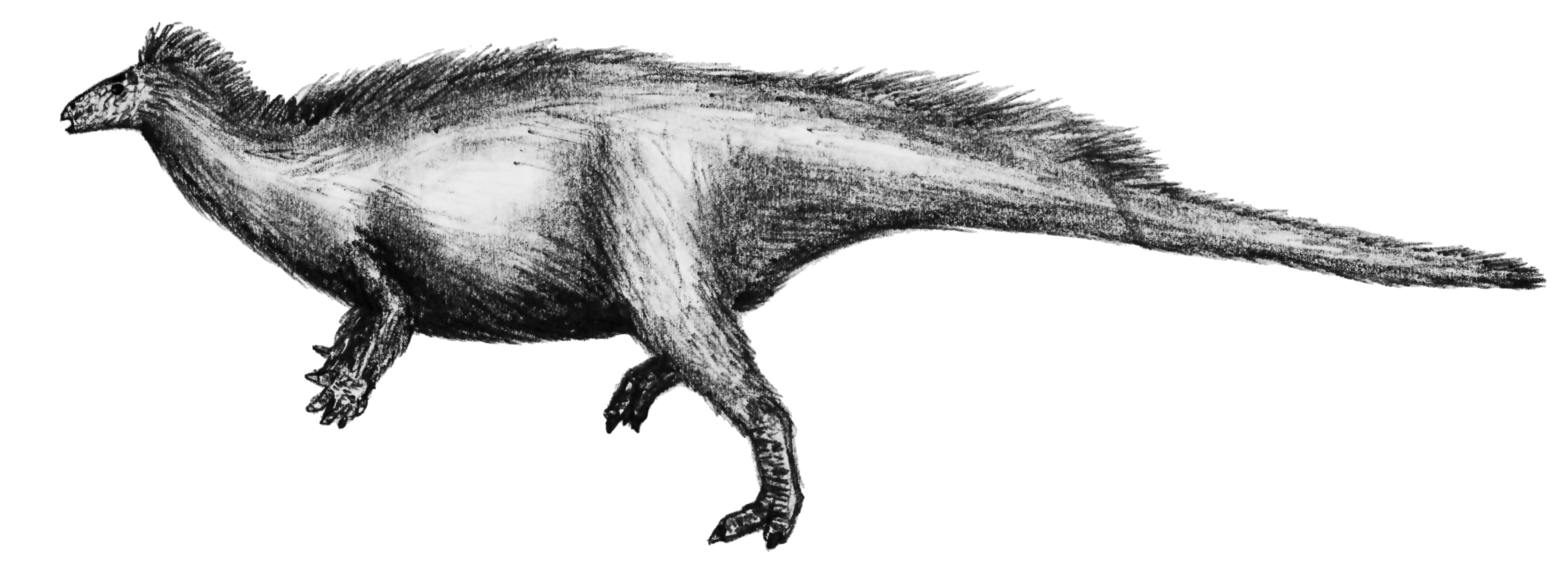 Reconstruction of Camptosaurus based on skeletal drawing in Paul (2010)